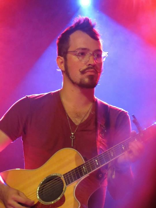 nothing